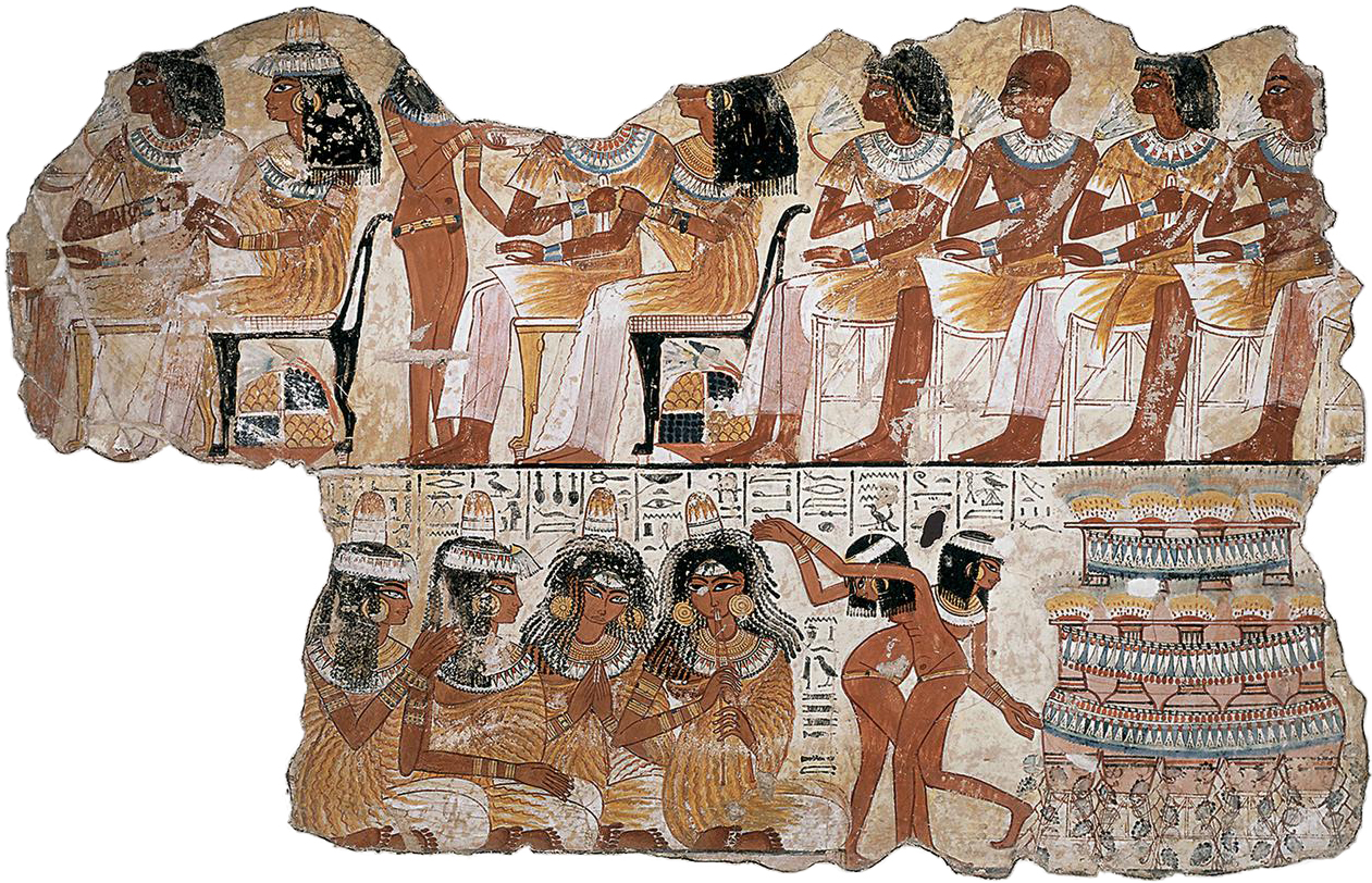 A fragment of the frescoes on the wall of the tomb chapel of Nebamun, depicting guests, servants, musicians, and dancers at a funerary banquet. Other images on Commons show parts of the same scene, but this image was the best I could find online depicting all of this particular fragment.